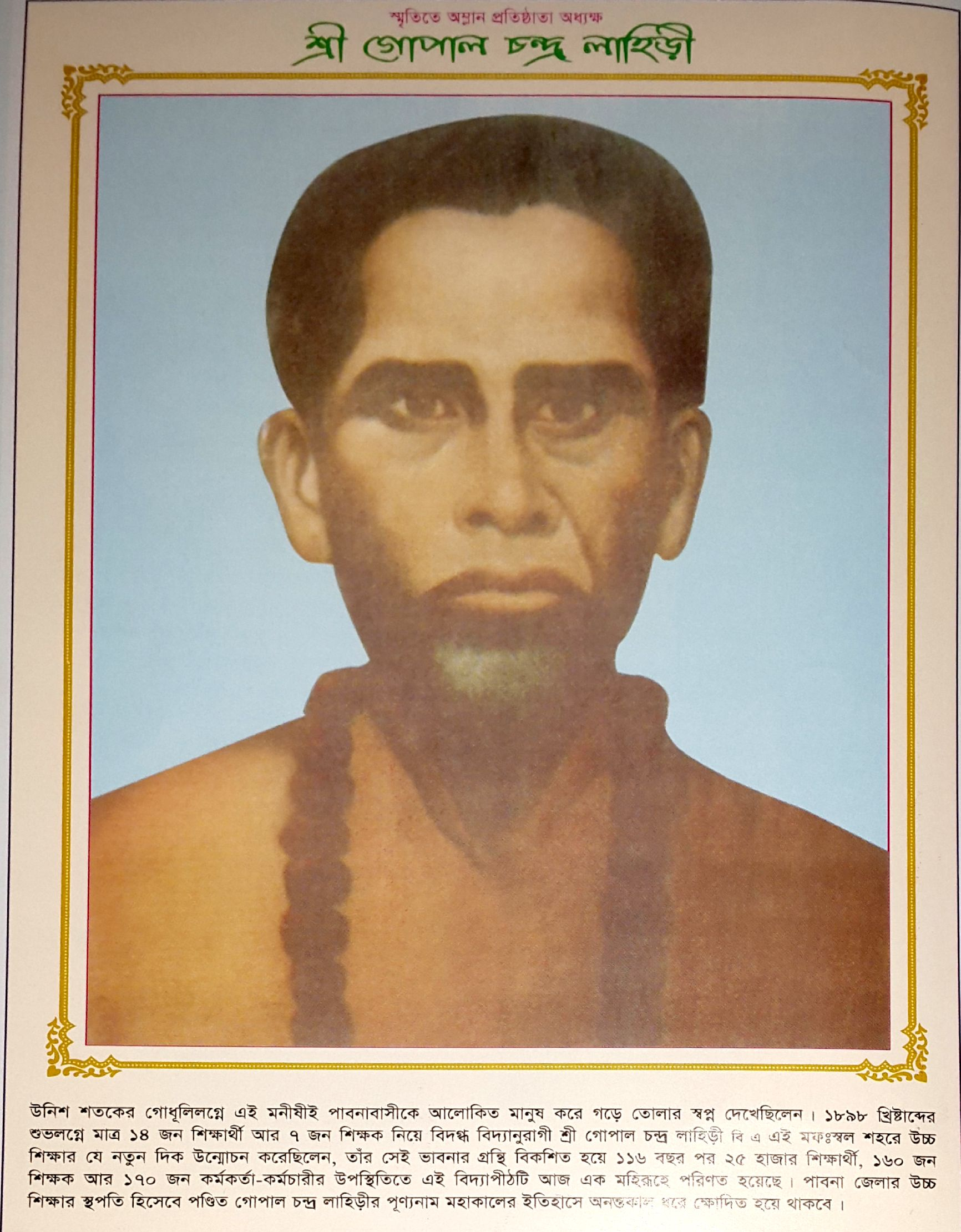 An renowned educationist.